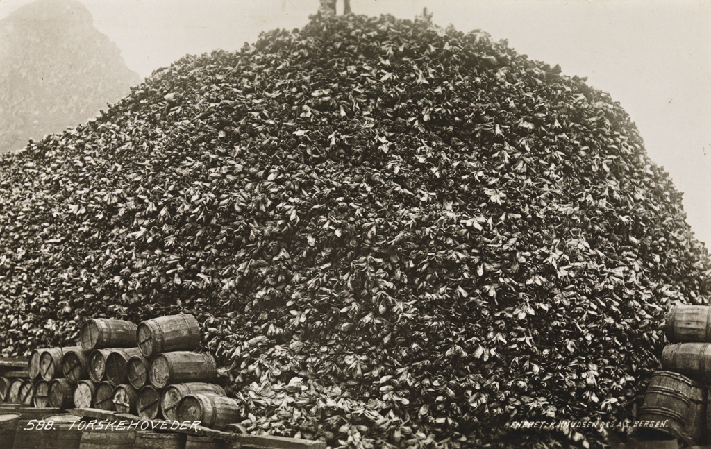 Motiv / Motif: Postkort / postcard. Dato / Date: 1885 (postkortet utgitt senere) Fotograf / Photographer: Knud Knudsen Utgiver / Publisher: K. Knudsen & Co. A/S Sted / Place: Nordland, Vågan, Brettesnes Eier / Owner Institution: Nasjonalbiblioteket / National Library of Norway Lenke / Link: Bildesignatur / Image Number: blds_03805